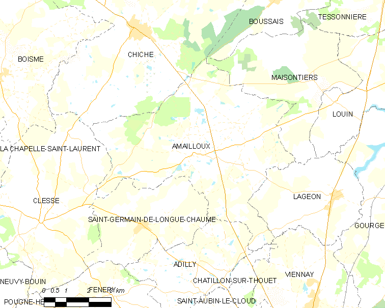 Map of French municipality Amailloux